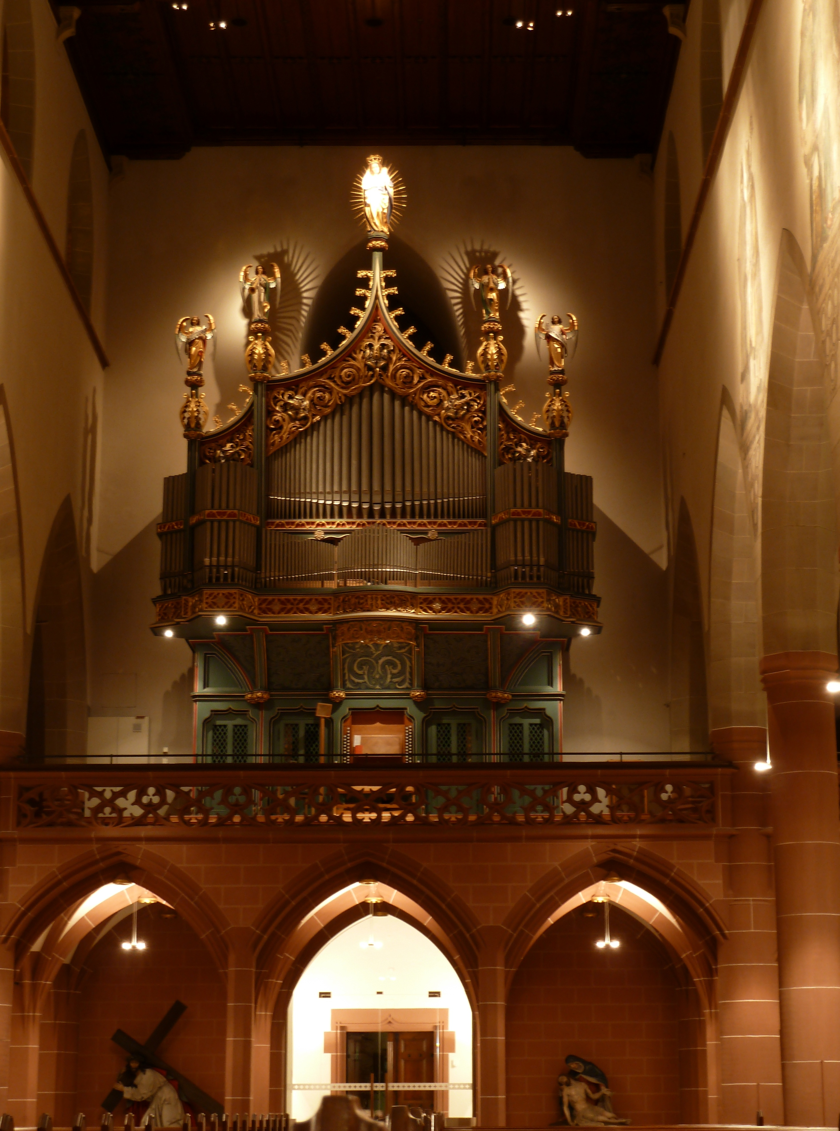 Interior of the church St. Jacobi in Neustadt/Black Forest in Germany (also called Neustadt cathedral) with view to the organ loft.